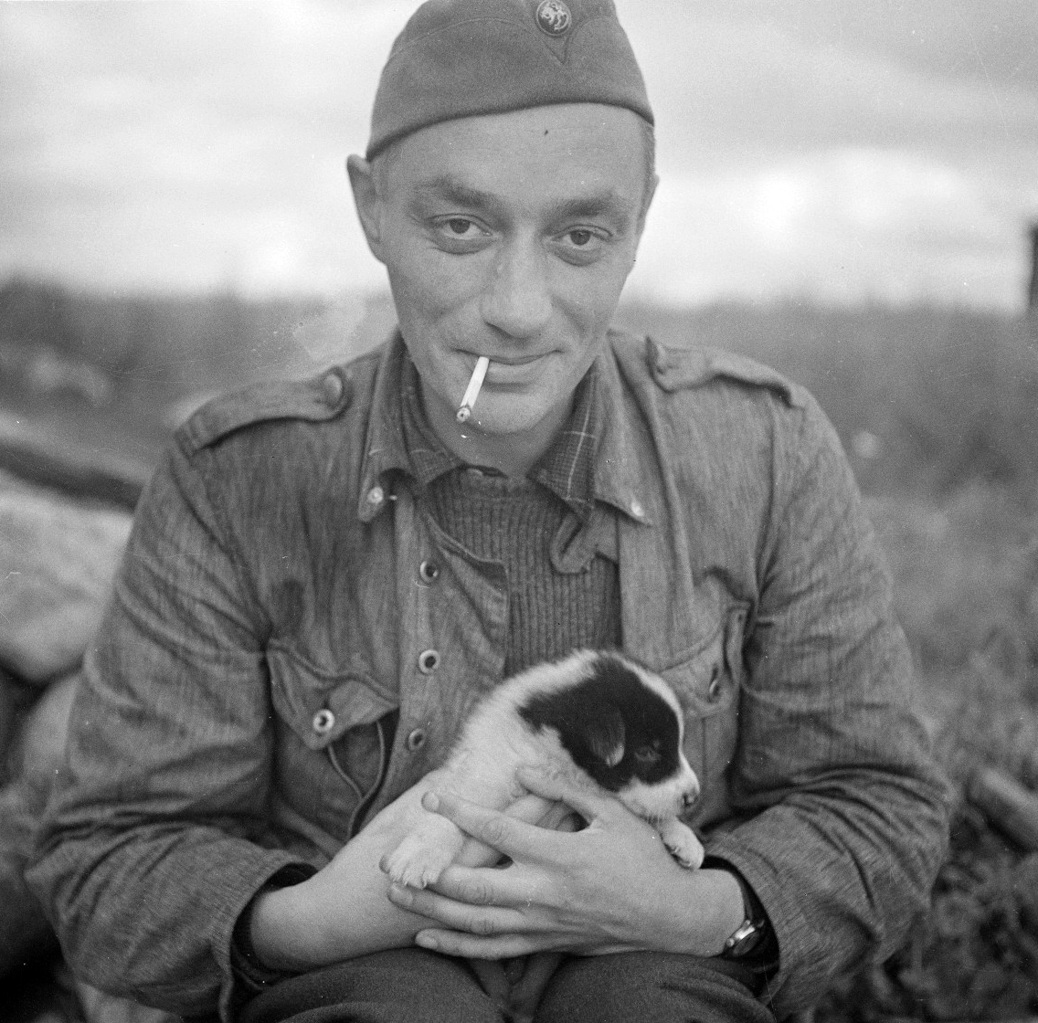 Photograph of the Finnish writer Gunnar Johansson (1903–1942) during World War II.